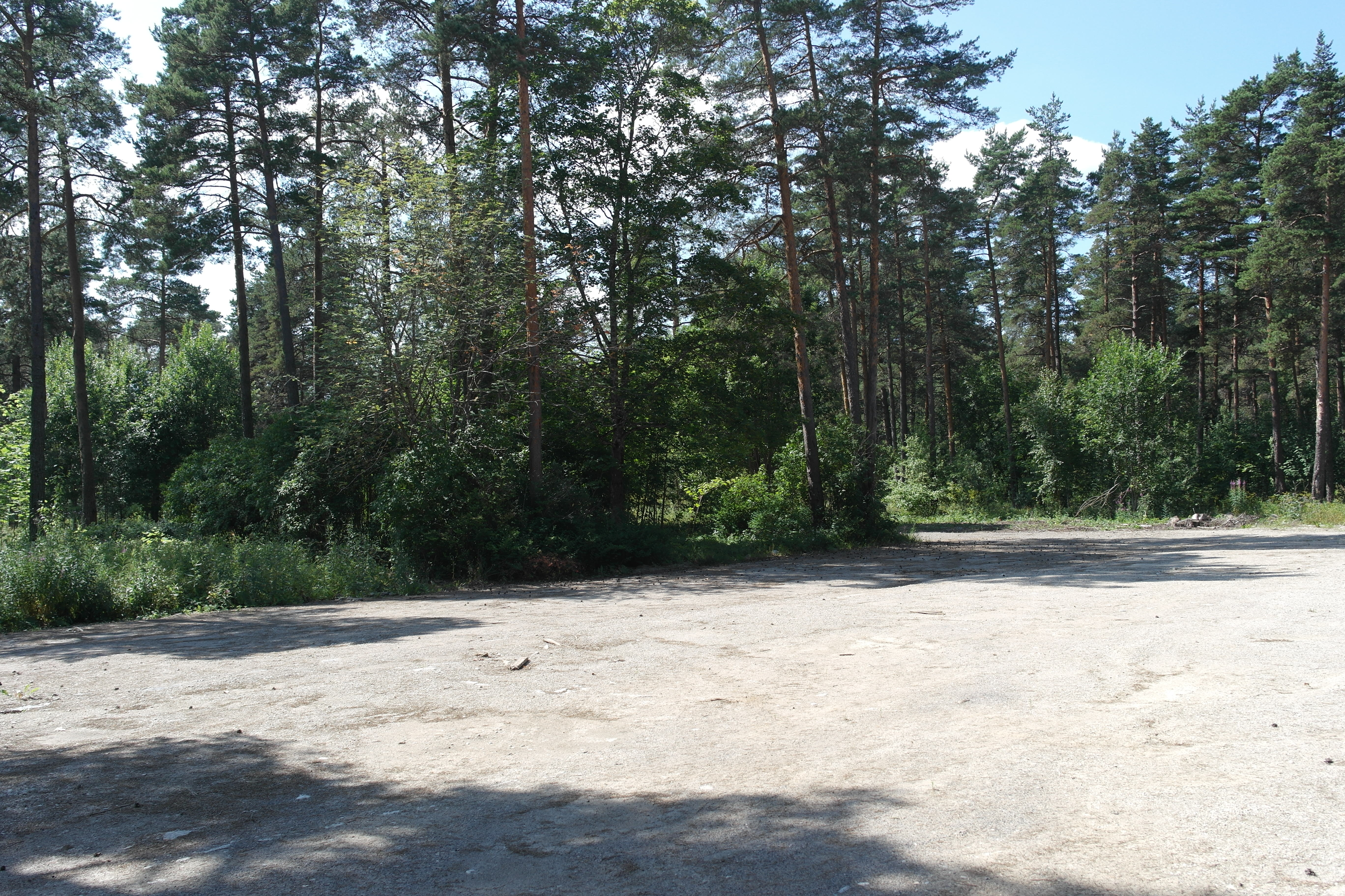 Place of the military campus in Aruküla, Estonia.